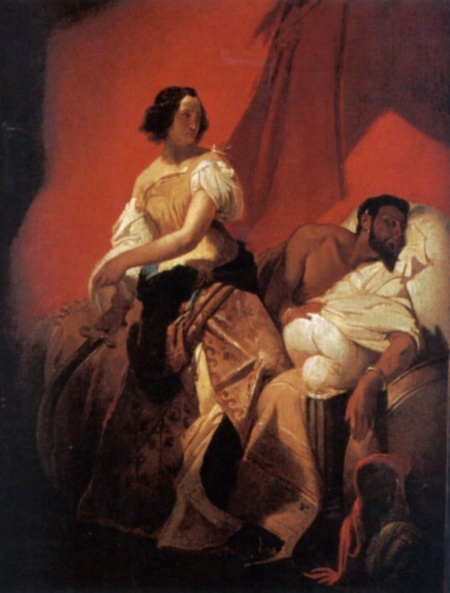 Judith and Holofernes, by Emile Vernet